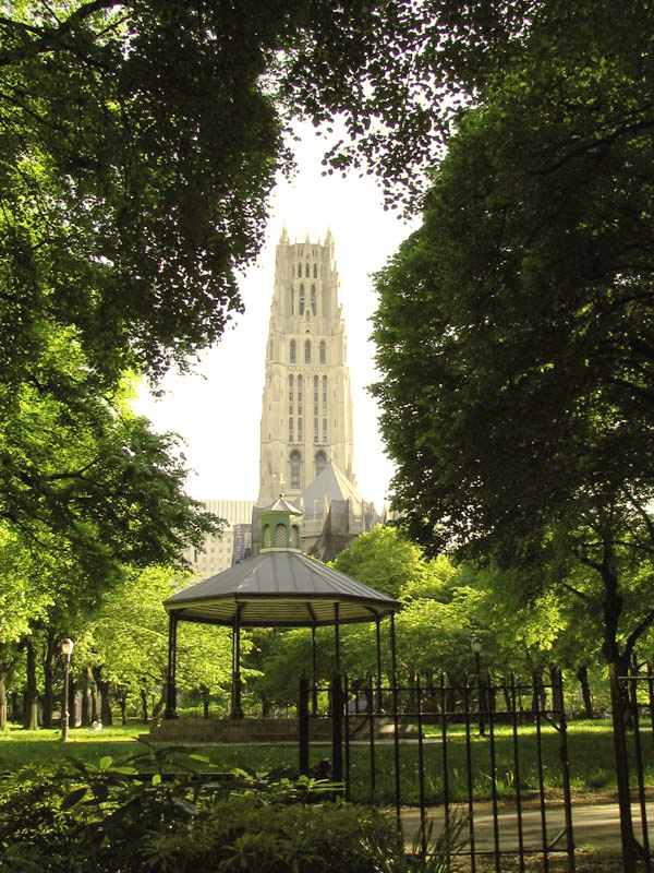 Looking south from the northern side of Sakura Park, a view of Riverside Church.